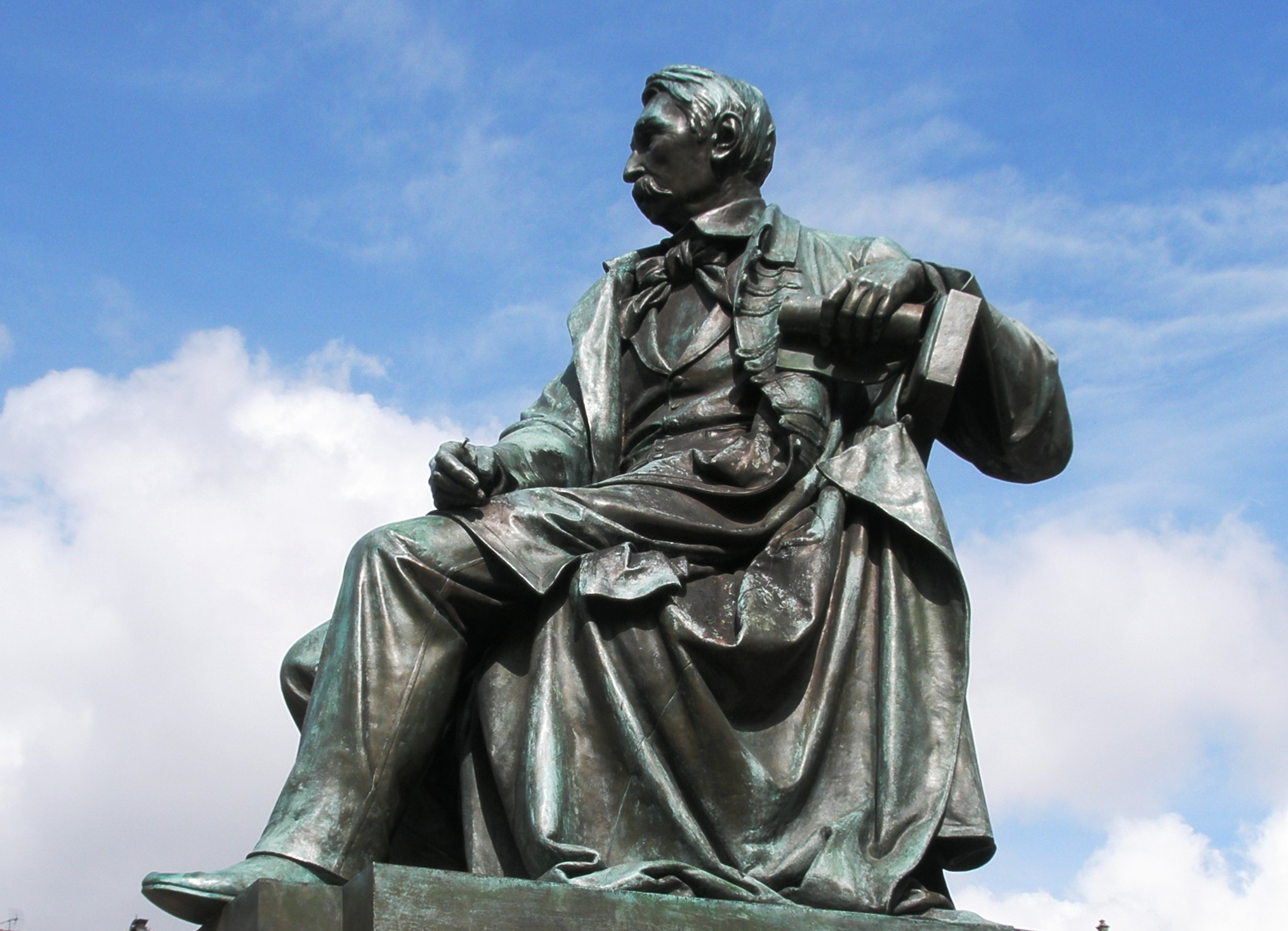 Aleksander count Fredro Monument in Wrocław, Poland.